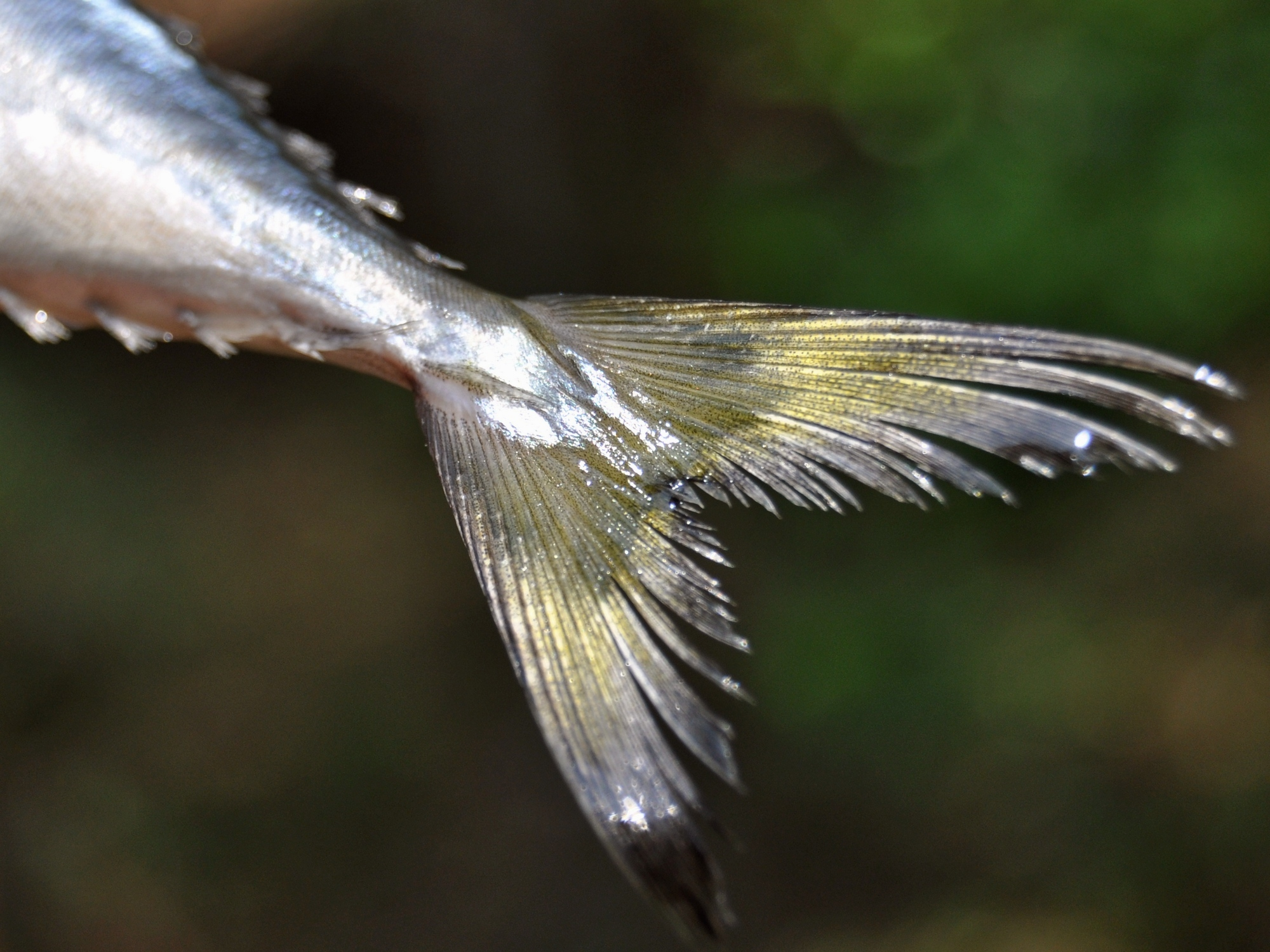 Pacific Chub Mackerel, Scomber japonicus, 225mm FL. From local market in Bogor, West Java, Indonesia. Caudal region: caudal fin with two small keels on each side of caudal peduncle, finlets.